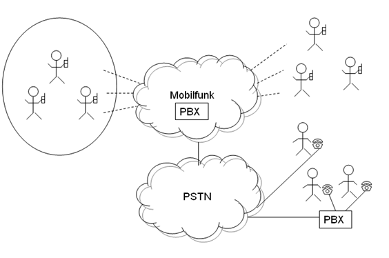 Mobile PABX